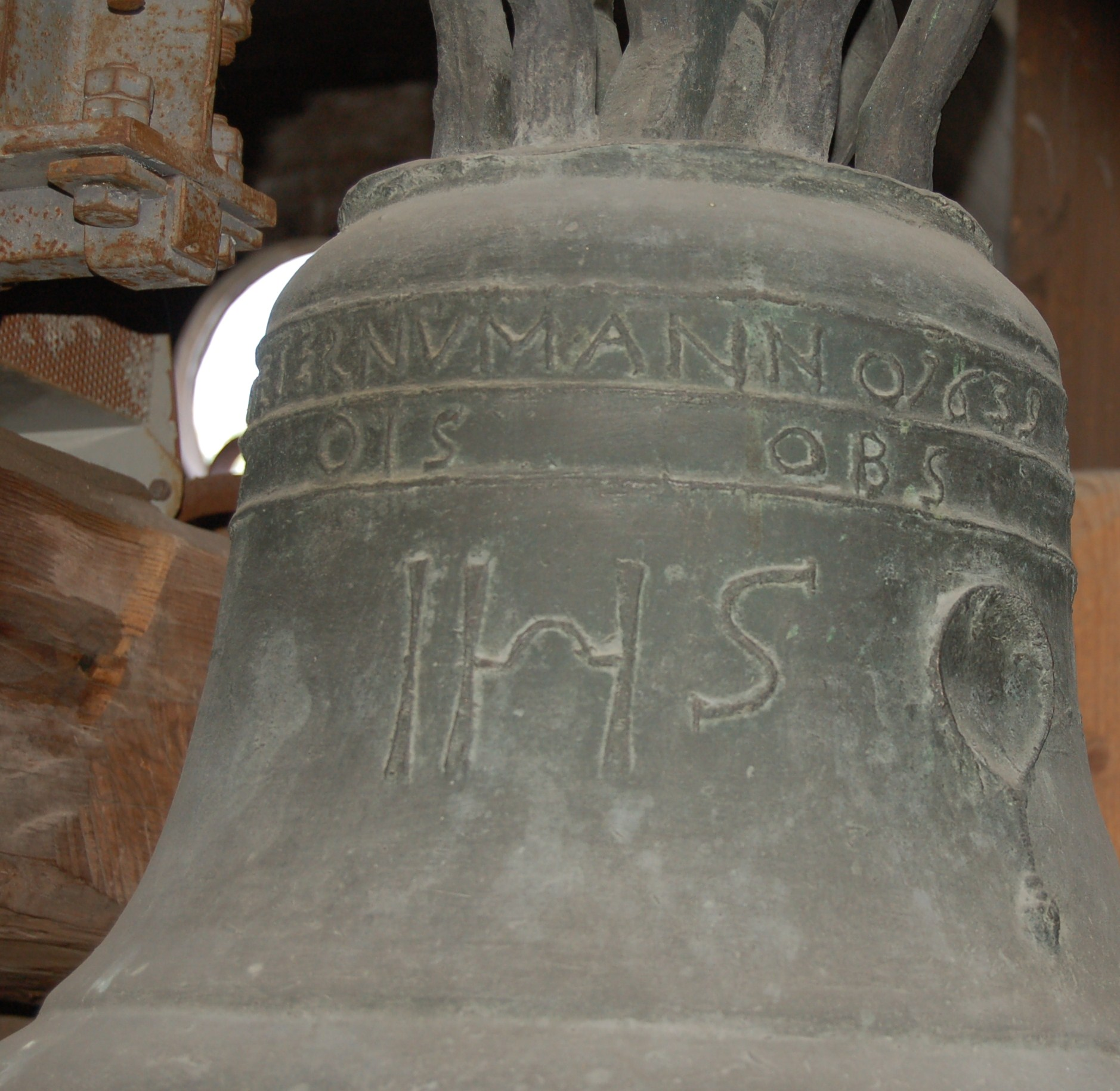 Churchbell Larvik church, Norway